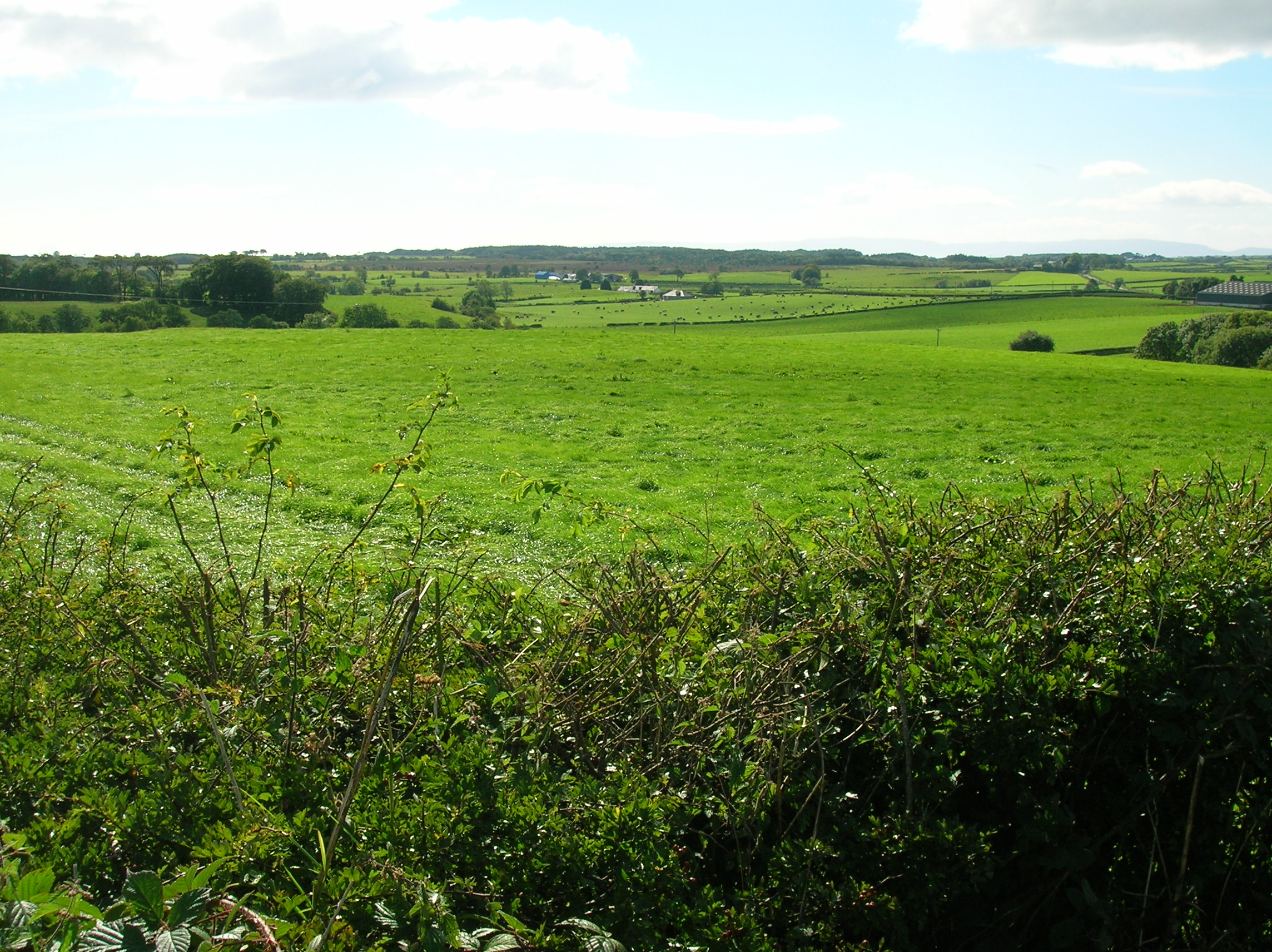 Chapel-land Park at Kirkwood with Bloak or Kirkwood Moss, also Bloak Holmes and Law Farms, East Ayrshire, Scotland.